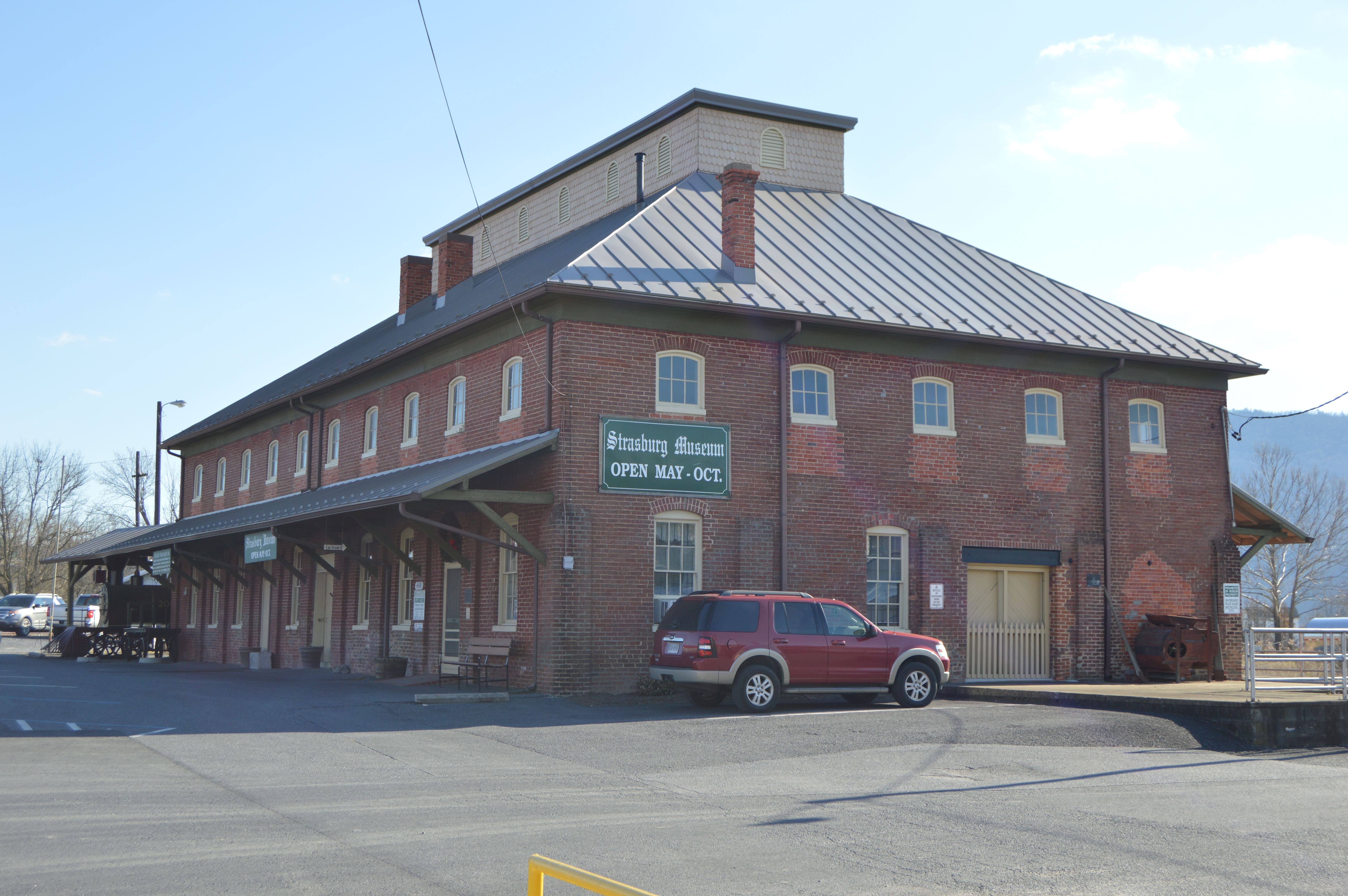 Front and western side of the former Strasburg Stone and Earthenware Manufacturing Company (now a museum), located on the southern side of King Street (State Route 55) west of Lemley Street in Strasburg, Virginia, United States. Built in 1891, it is listed on the National Register of Historic Places.